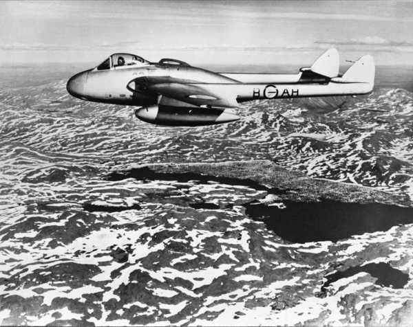 DeHavilland Vampire F Mk III of 331 skvadron. AH in this case does not mean an aircraft of 332 skvadron which used that code both prior to and after this. Here AH are the individual letters, and the B is the aircraft type code and denotes it is a Vampire.